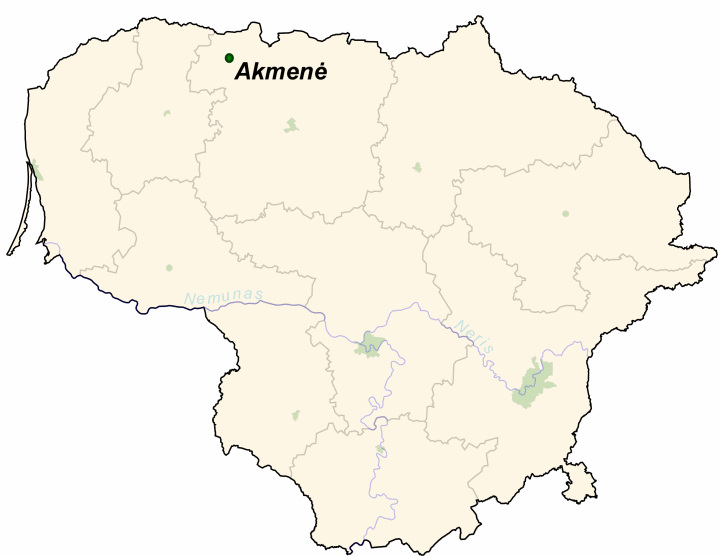 Akmenė on the map of Lithuania